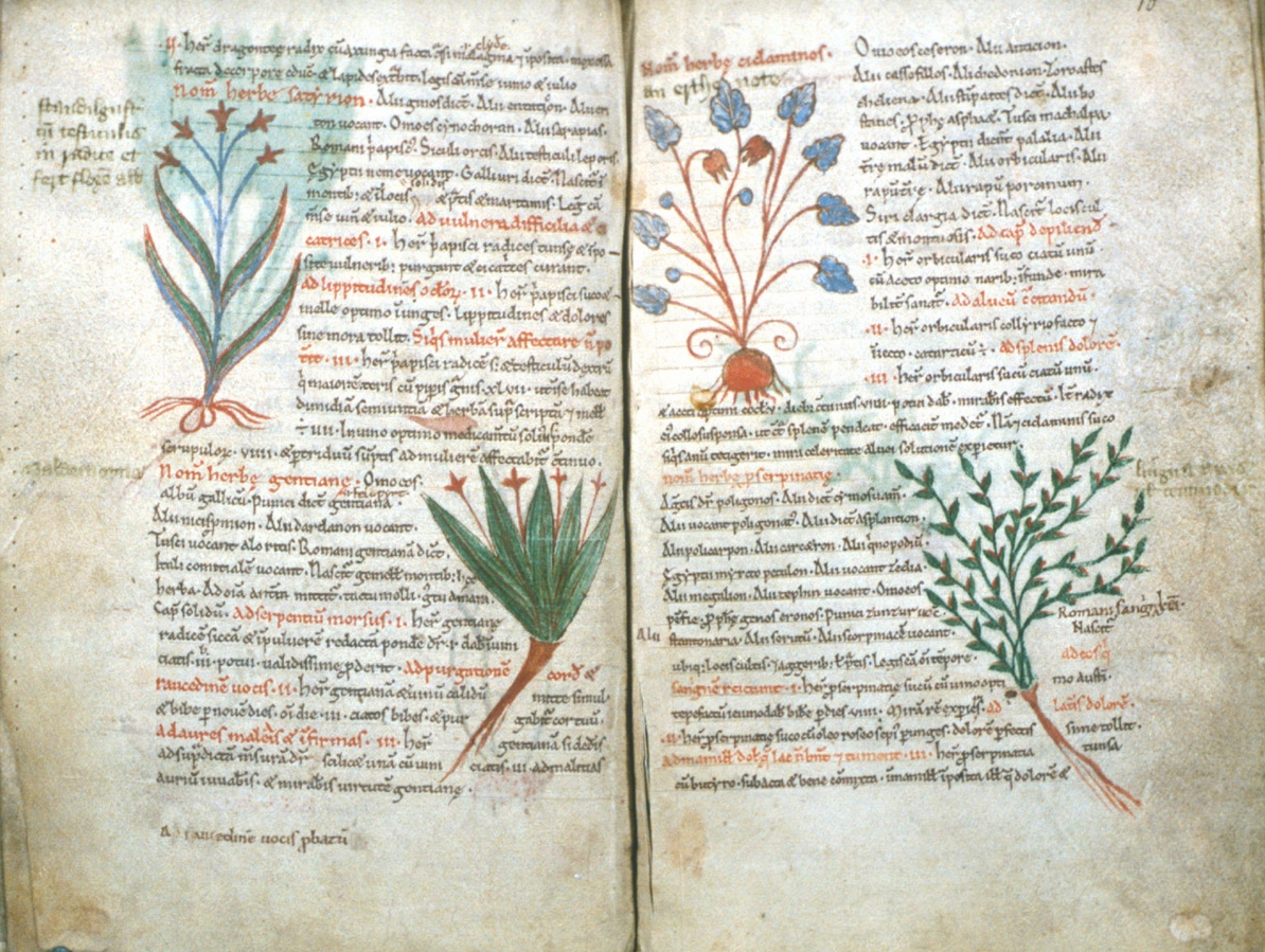 Satyrion and other plants. Pseudo-Apuleian Herbarius, MS Ashmole 1431, f 9v-10r